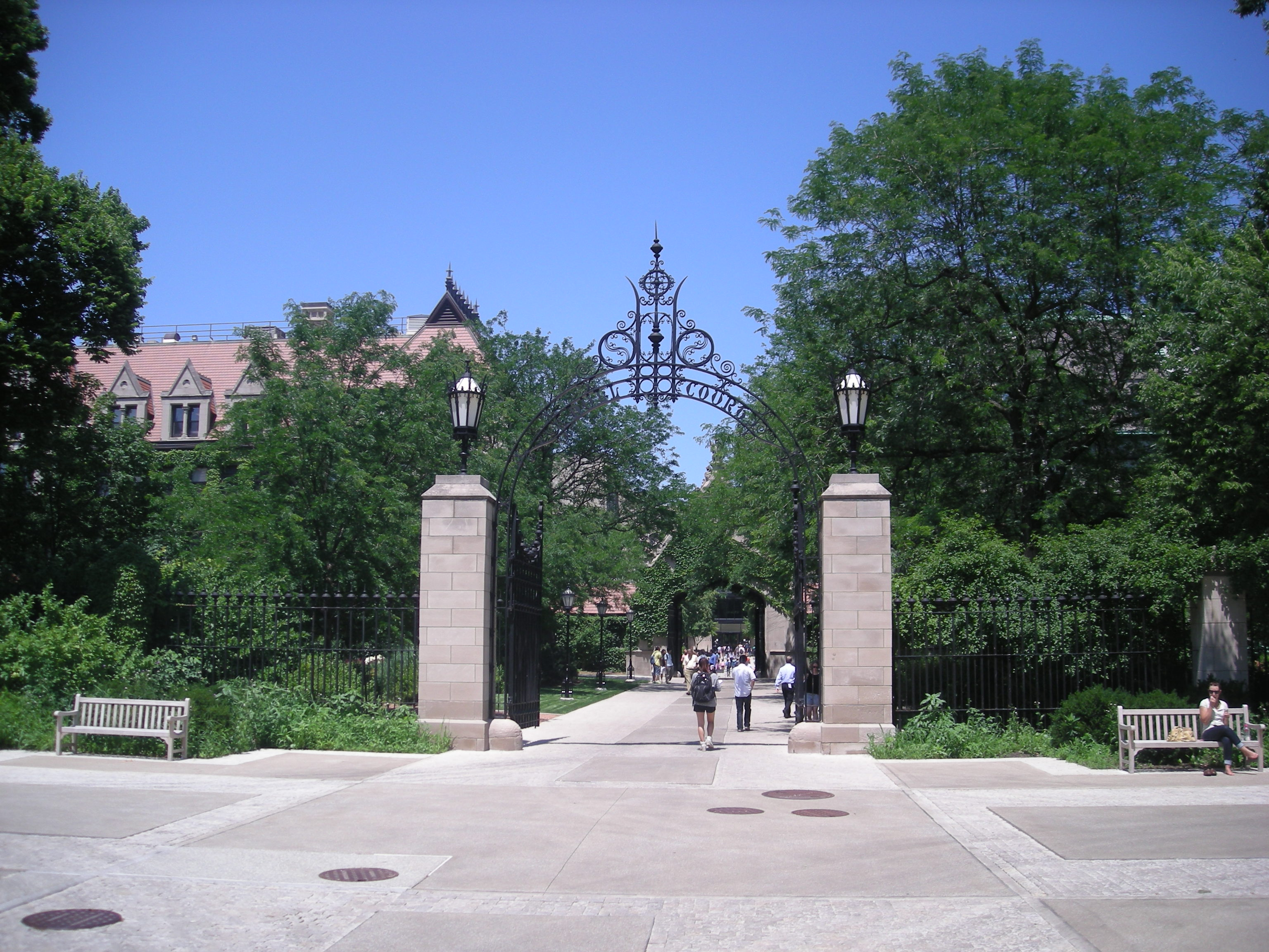 The Main Quadrangles area of the campus of the University of Chicago in Chicago, Illinois (United States).